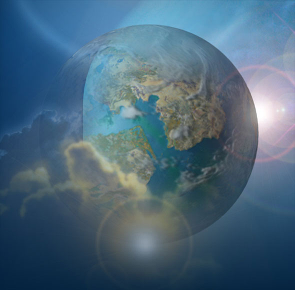 An artist's depiction of an extrasolar, Earthlike planet..